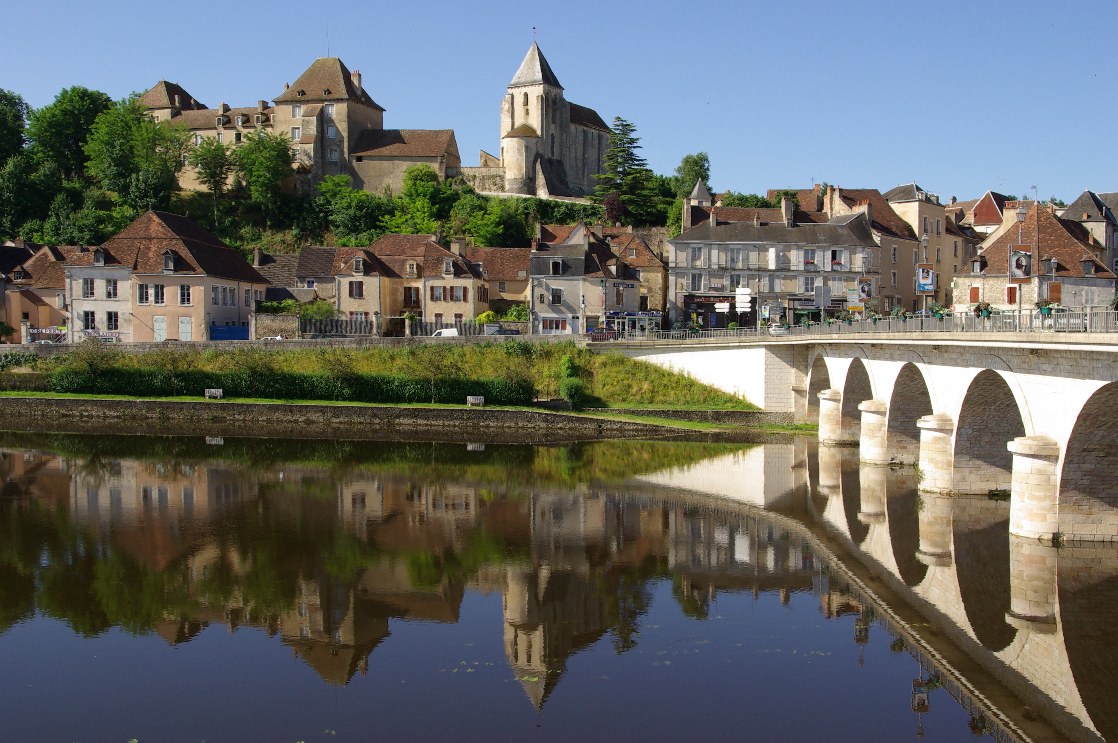 Le Blanc citie, Naillac castel; Saint Cyran church; Creuse river